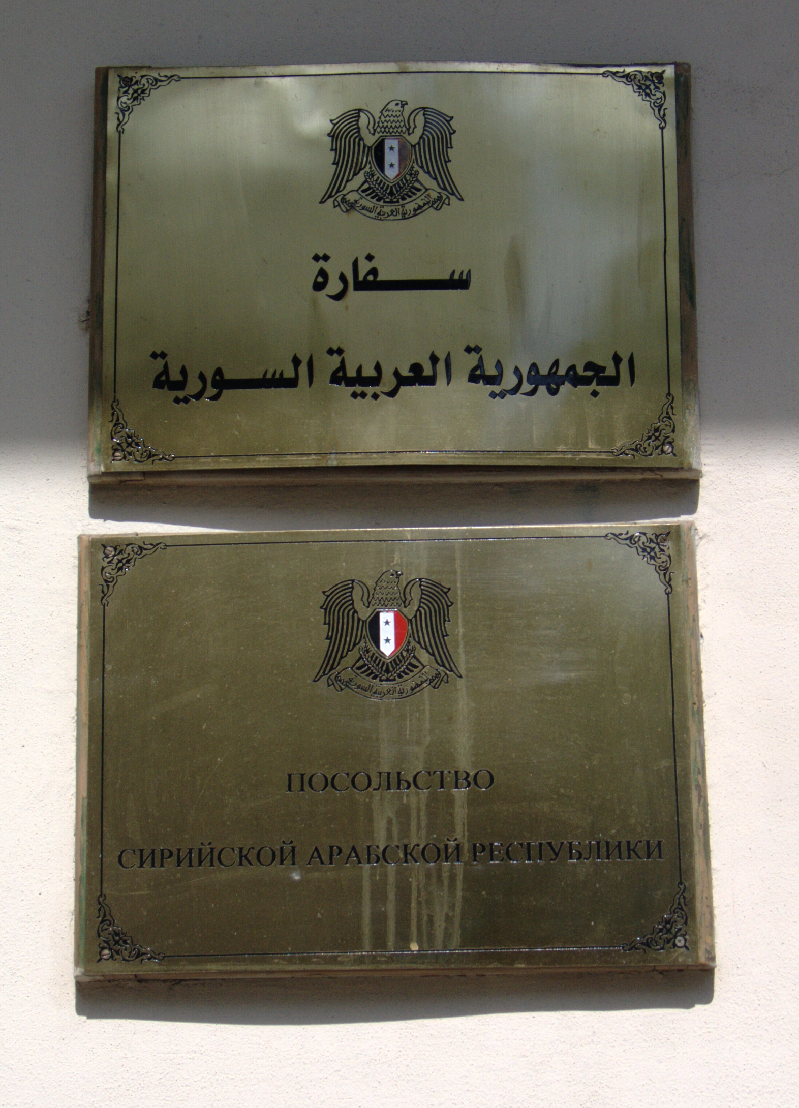 A plate on the Embassy of Syria in Moscow (Mansurovskiy side-street 4).